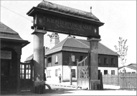 main entrance